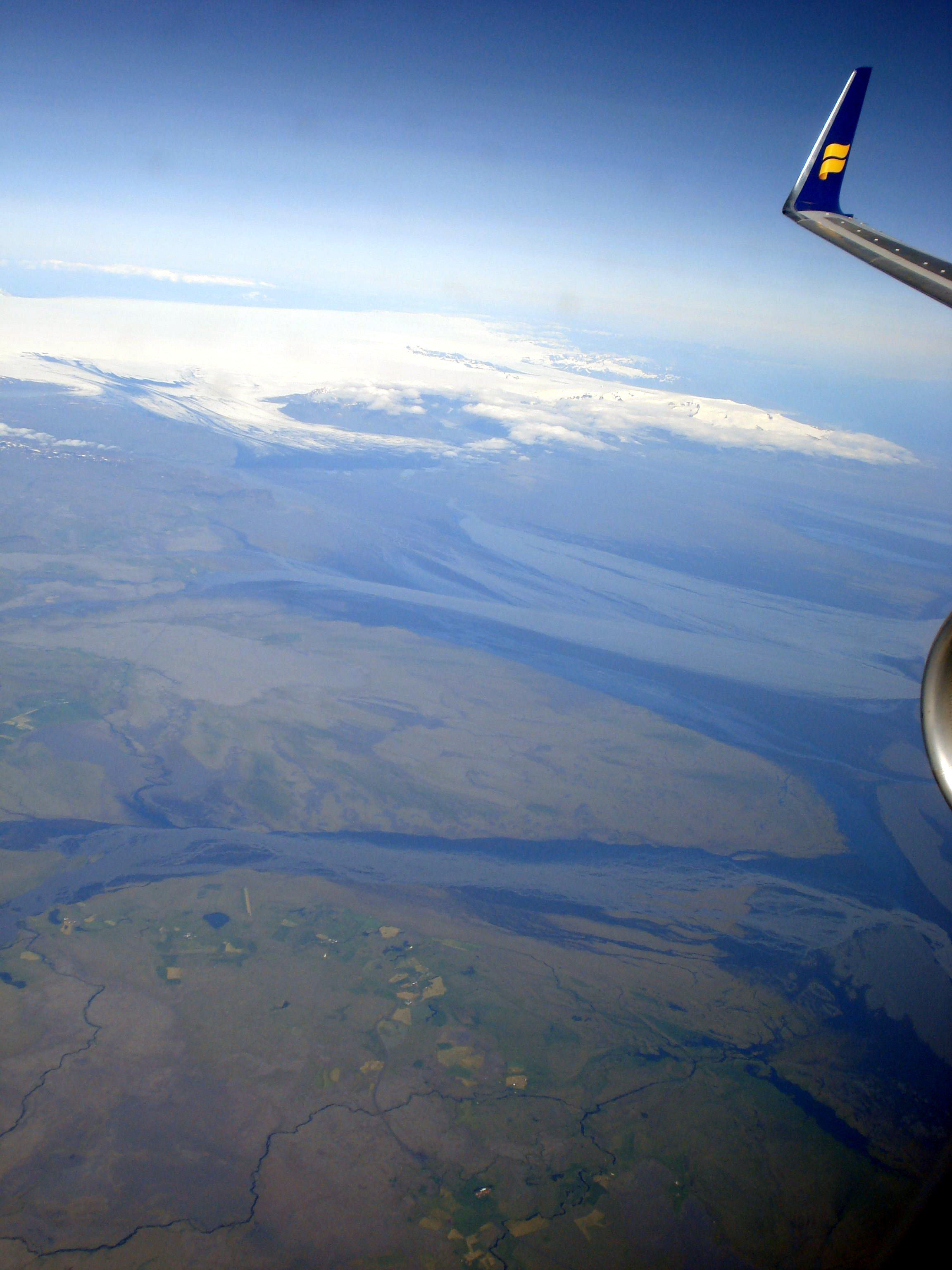 Öræfajökull and Skeiðarárjökull (West-Vatnajökull) glacier in Iceland